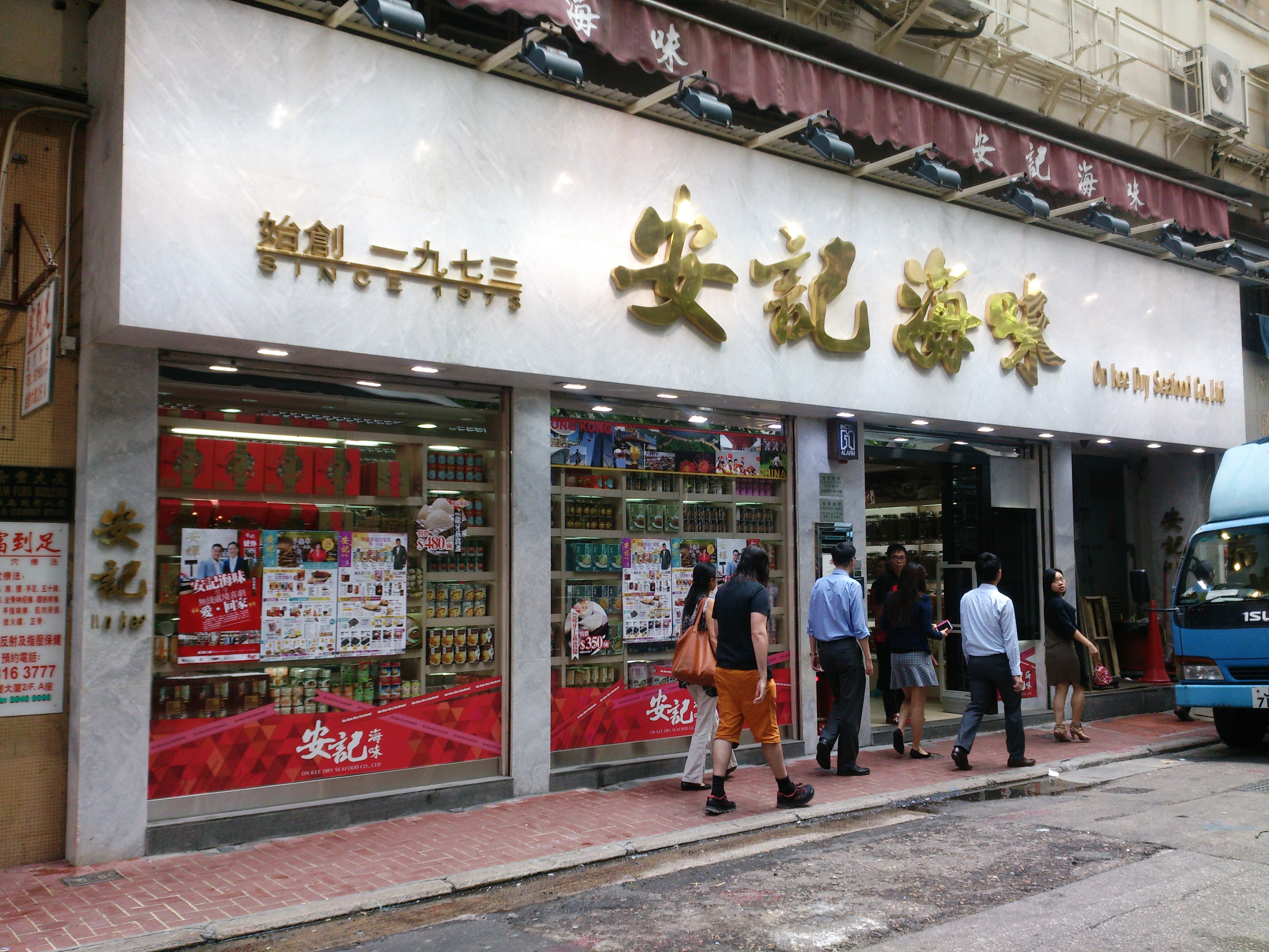 Sheung Wan On Kee Dry Seafood Store